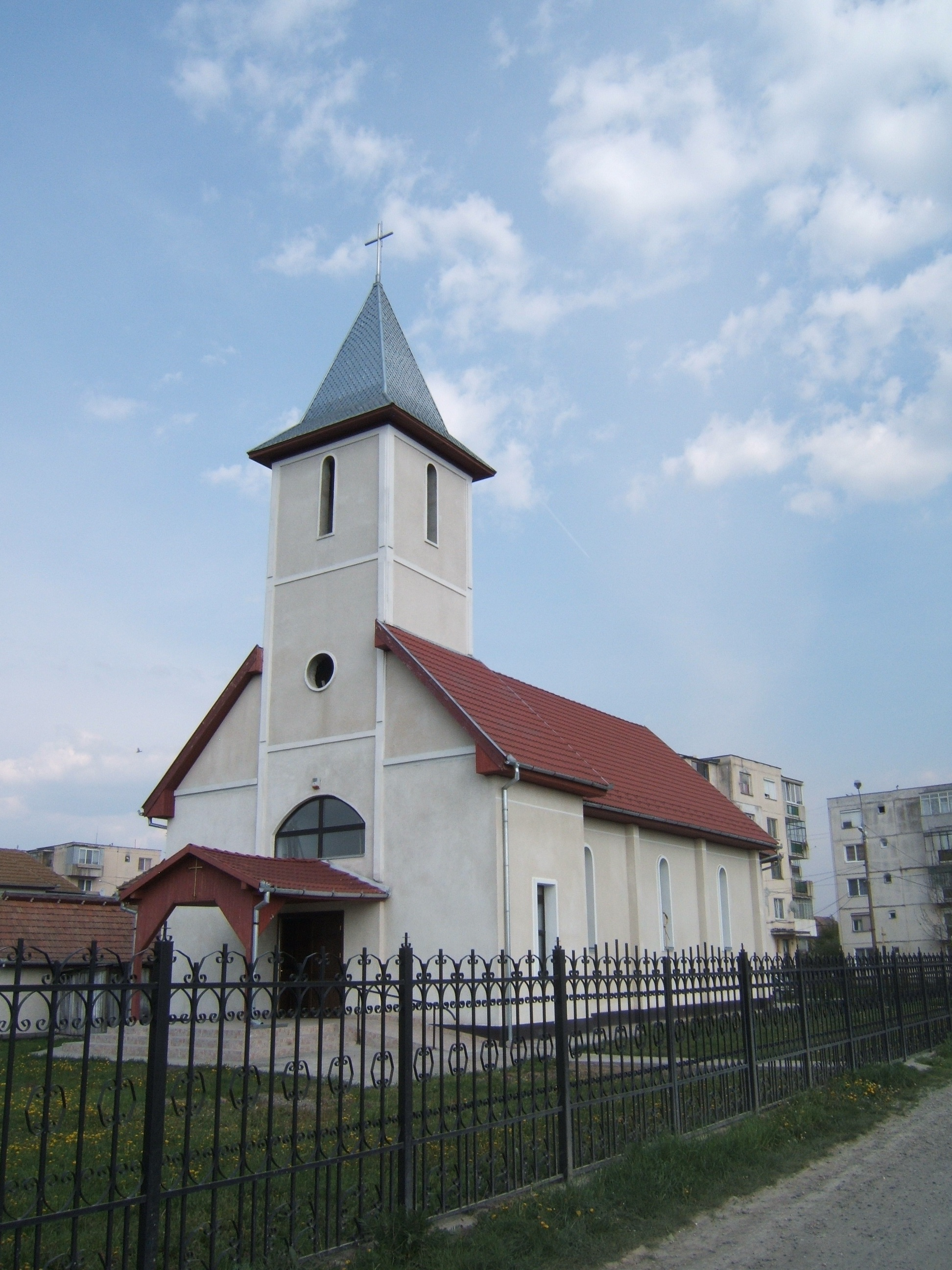 The new greek-catholic church